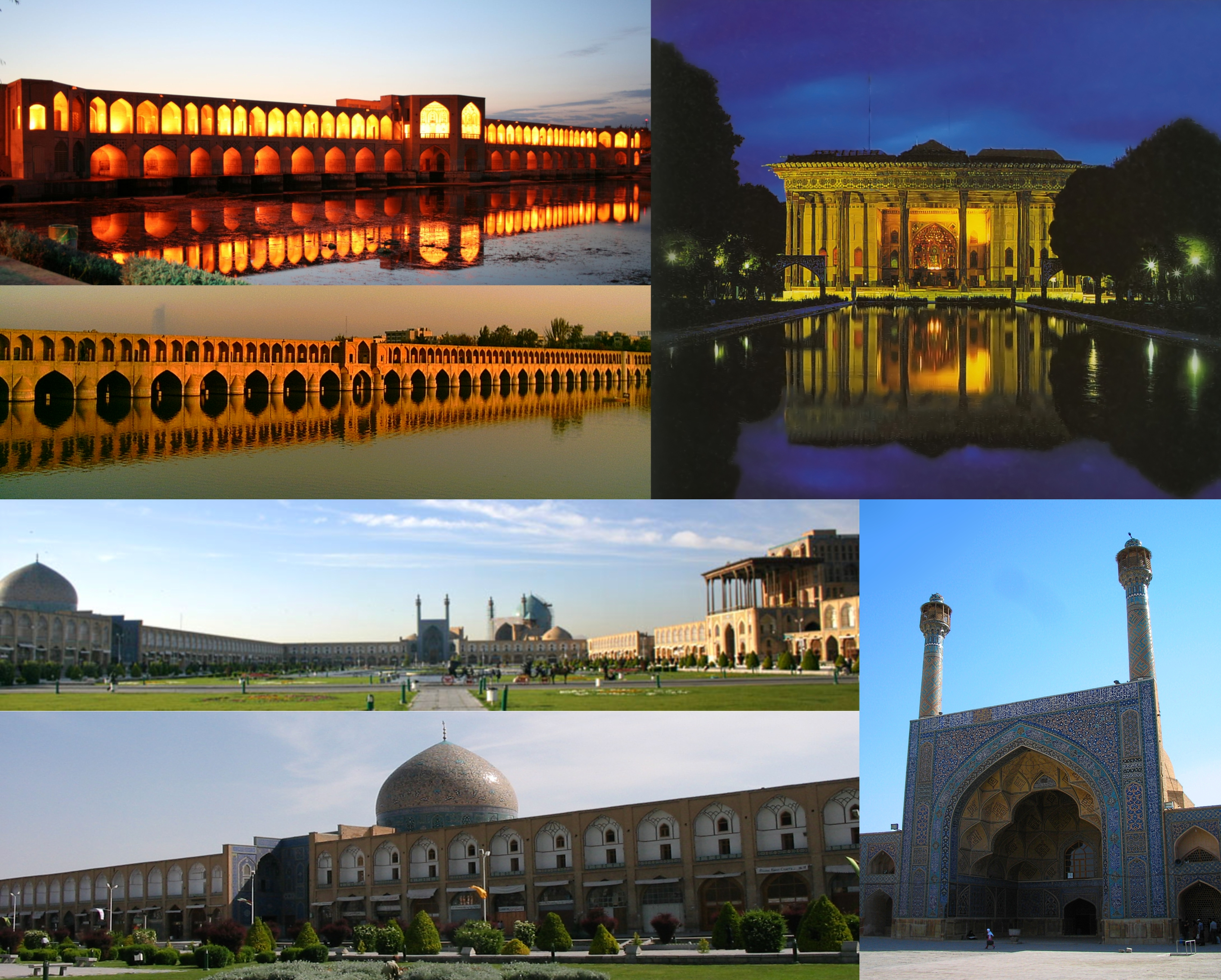 From top left: Khaju Bridge, Chehel Sotoun, Si-o-se Pol, Naqsh-e Jahan Square, Jameh Mosque of Isfahan, and Sheikh Lotf Allah Mosque